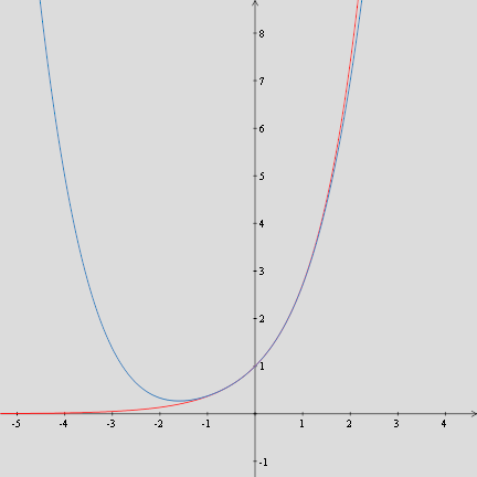 exp(x) and the corresponding Taylor's polynomial of degree 4 Created by Enoch Lau. As a courtesy, please let me know if you alter this image or this image description page.